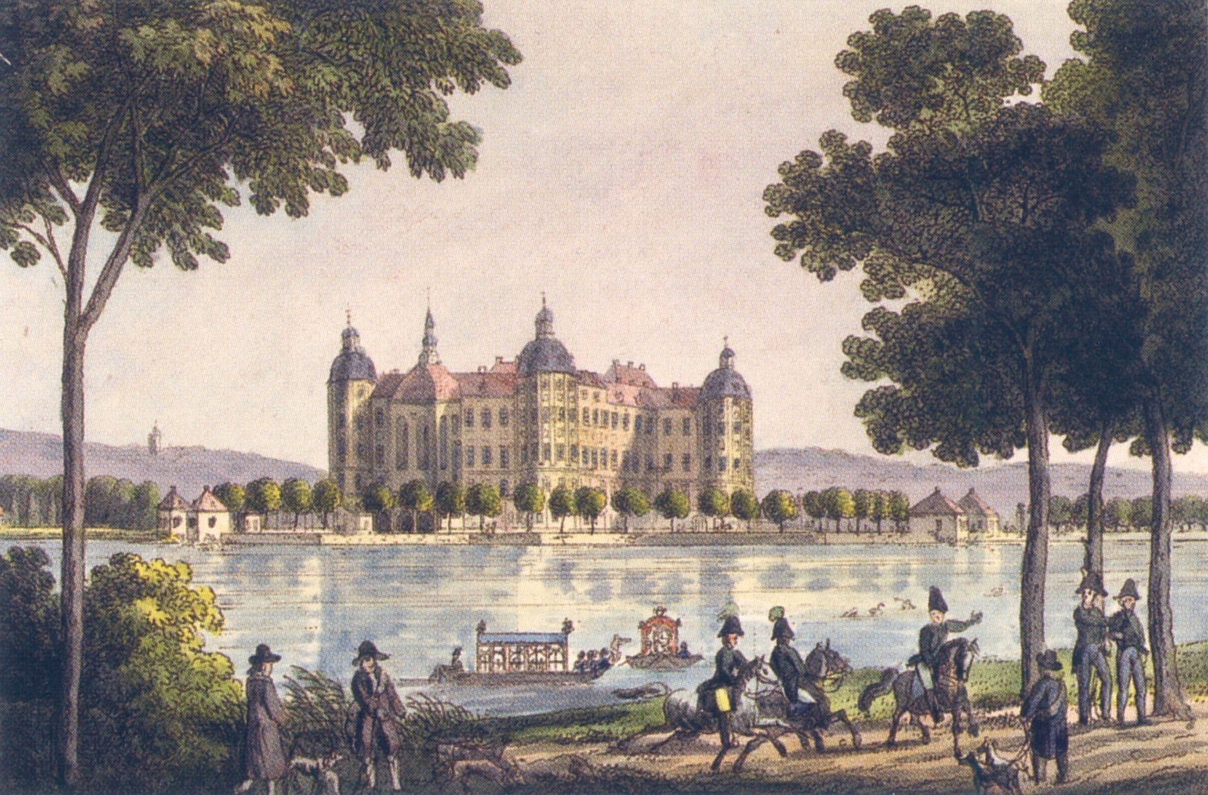 Castle Moritzburg, colored copper engraving